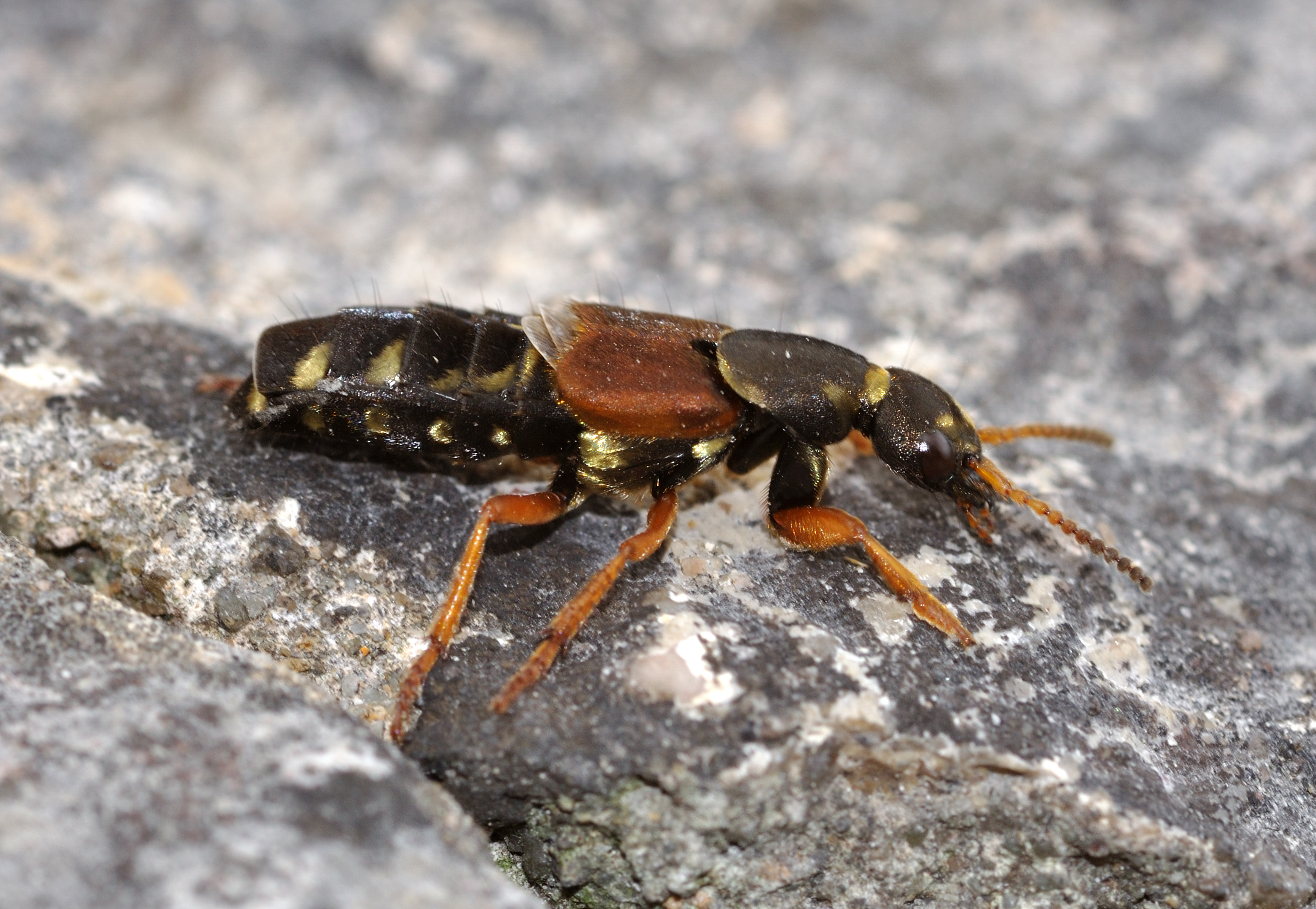 Rove beetle Staphylinus dimidiaticornis at Hohenneuffen, Germany.